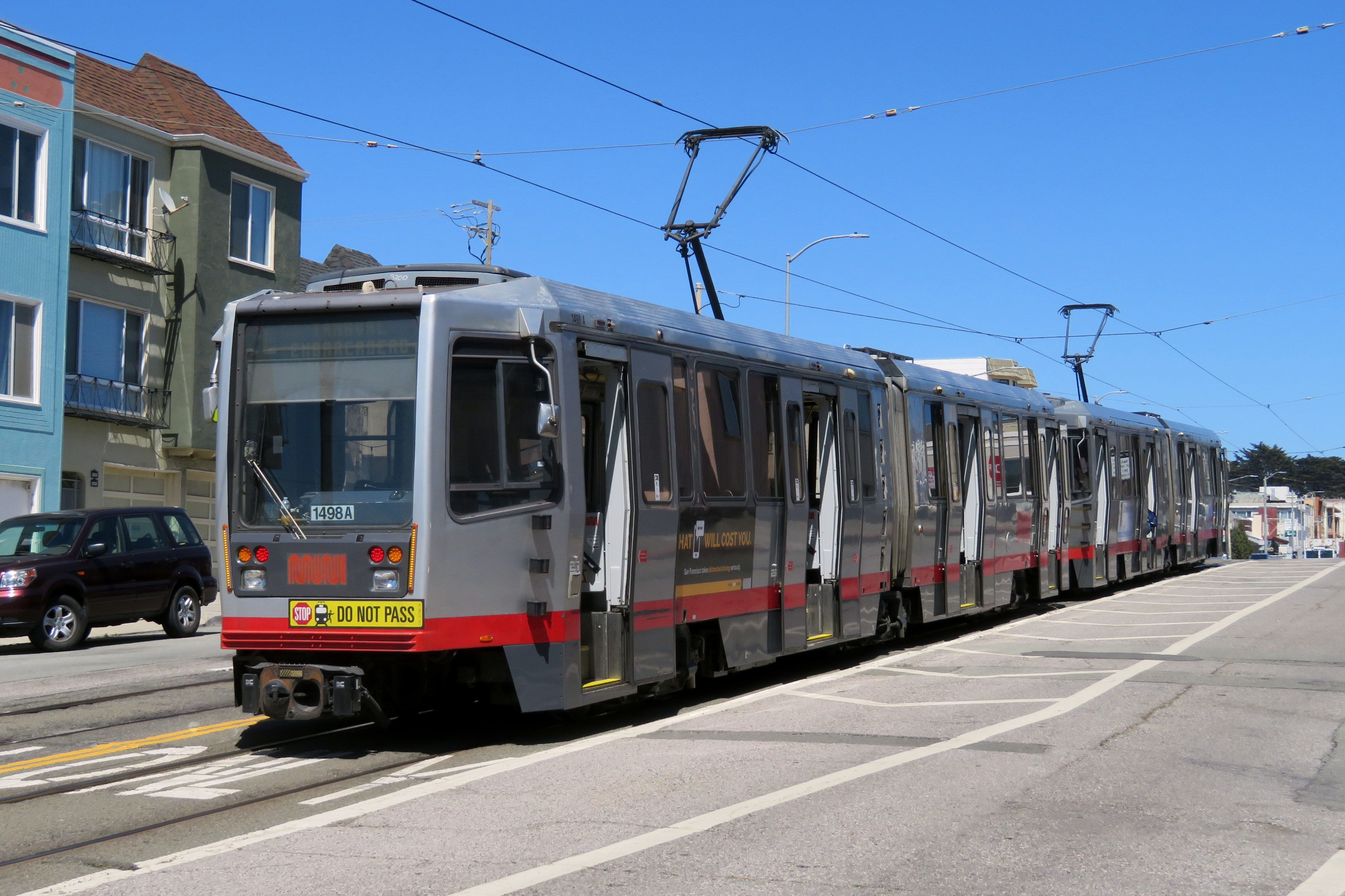 Inbound train at Taraval and 42nd Avenue in June 2018